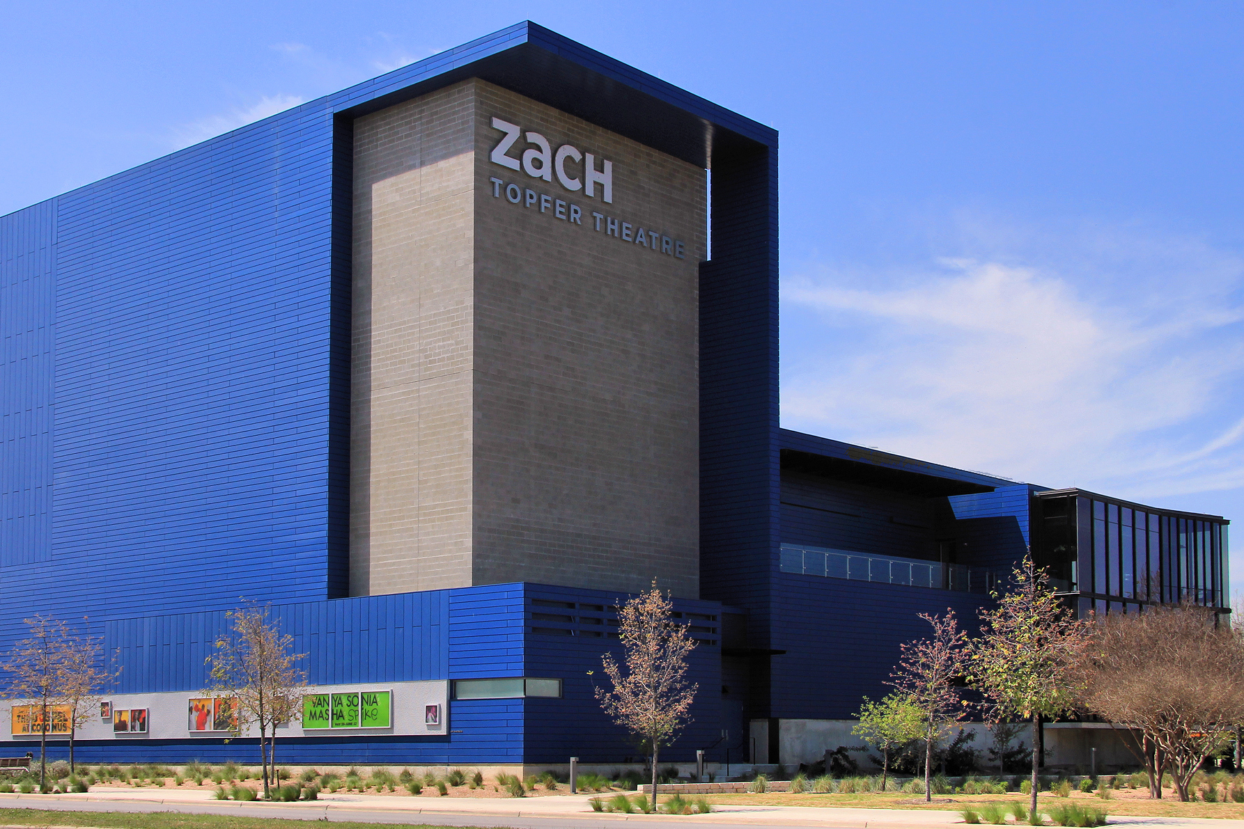 The Zach Theatre's Topfer Theatre in Austin, Texas, United States.